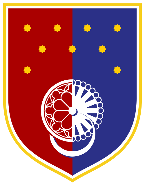 Coat of arms of Sarajevo Canton, Bosnia and Herzegovina.